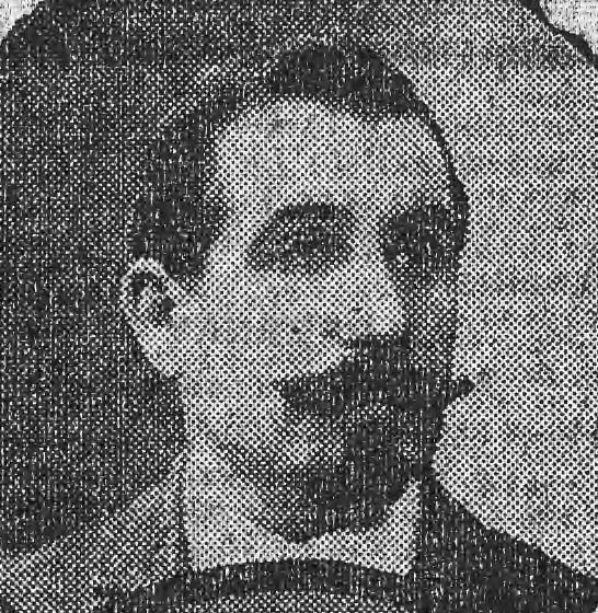 Photography of Léon Jouhaux in L'Humanité (May 27, 1913)